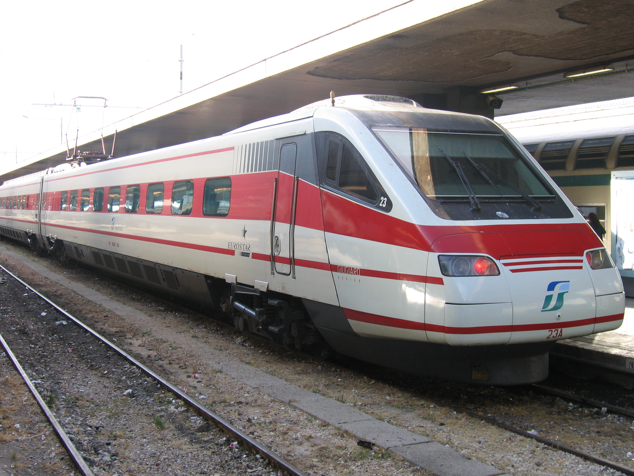 ETR.460 in Roma Termini train station. Author: Jollyroger. 2 june 2006